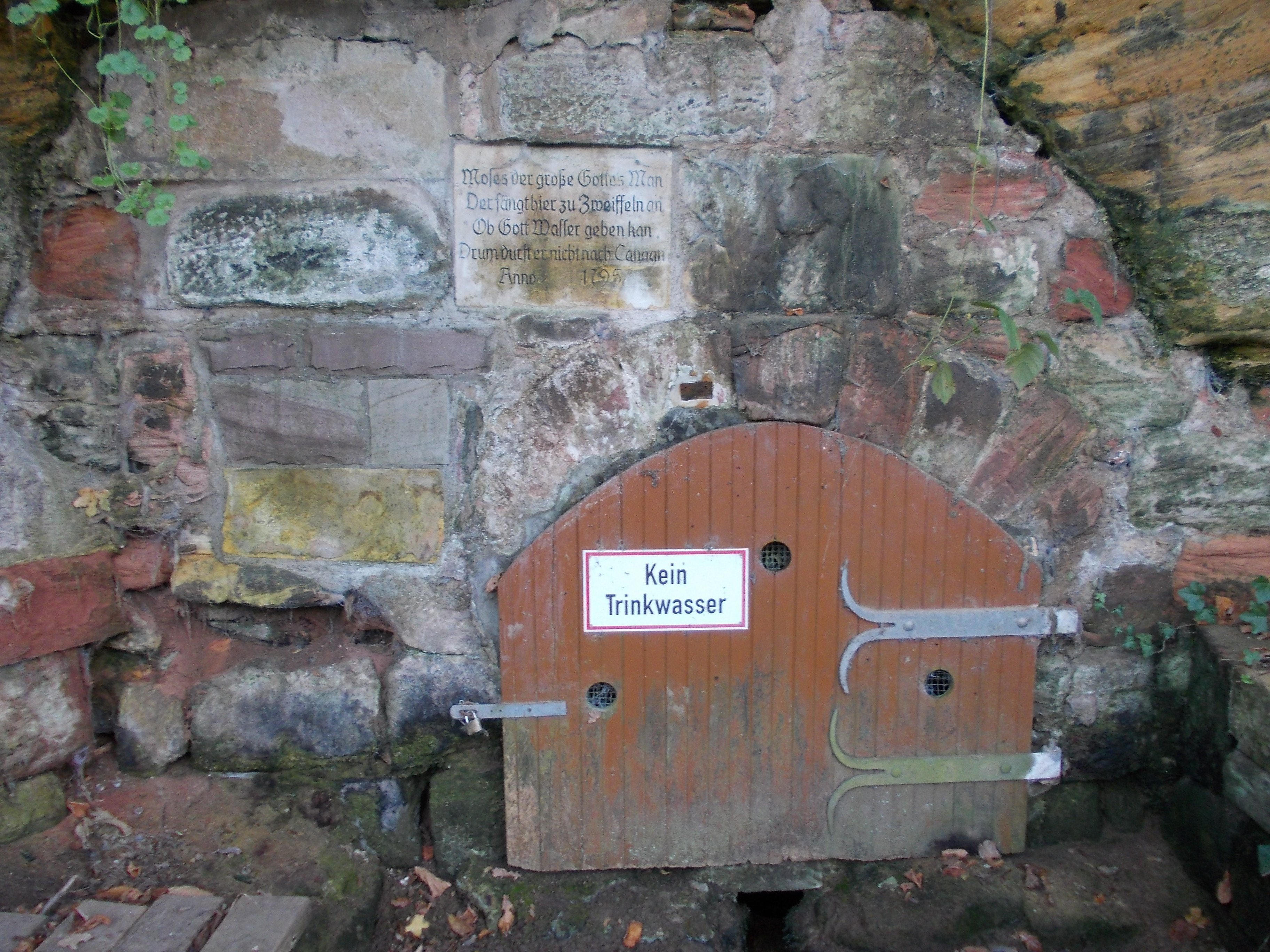 Moses Fountain in Schönburg (district: Burgenlandkreis, Saxony-Anhalt)